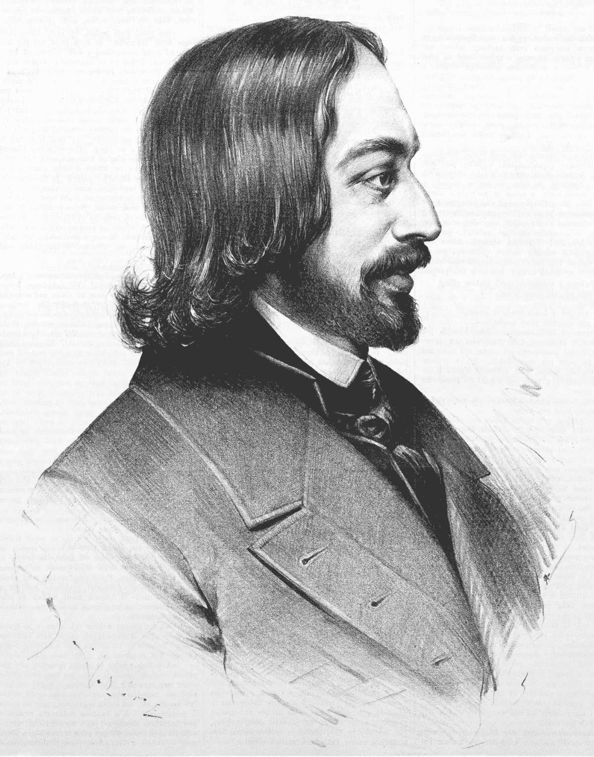 Portraif of Josef Jaroslav Kalina, Czech poet.